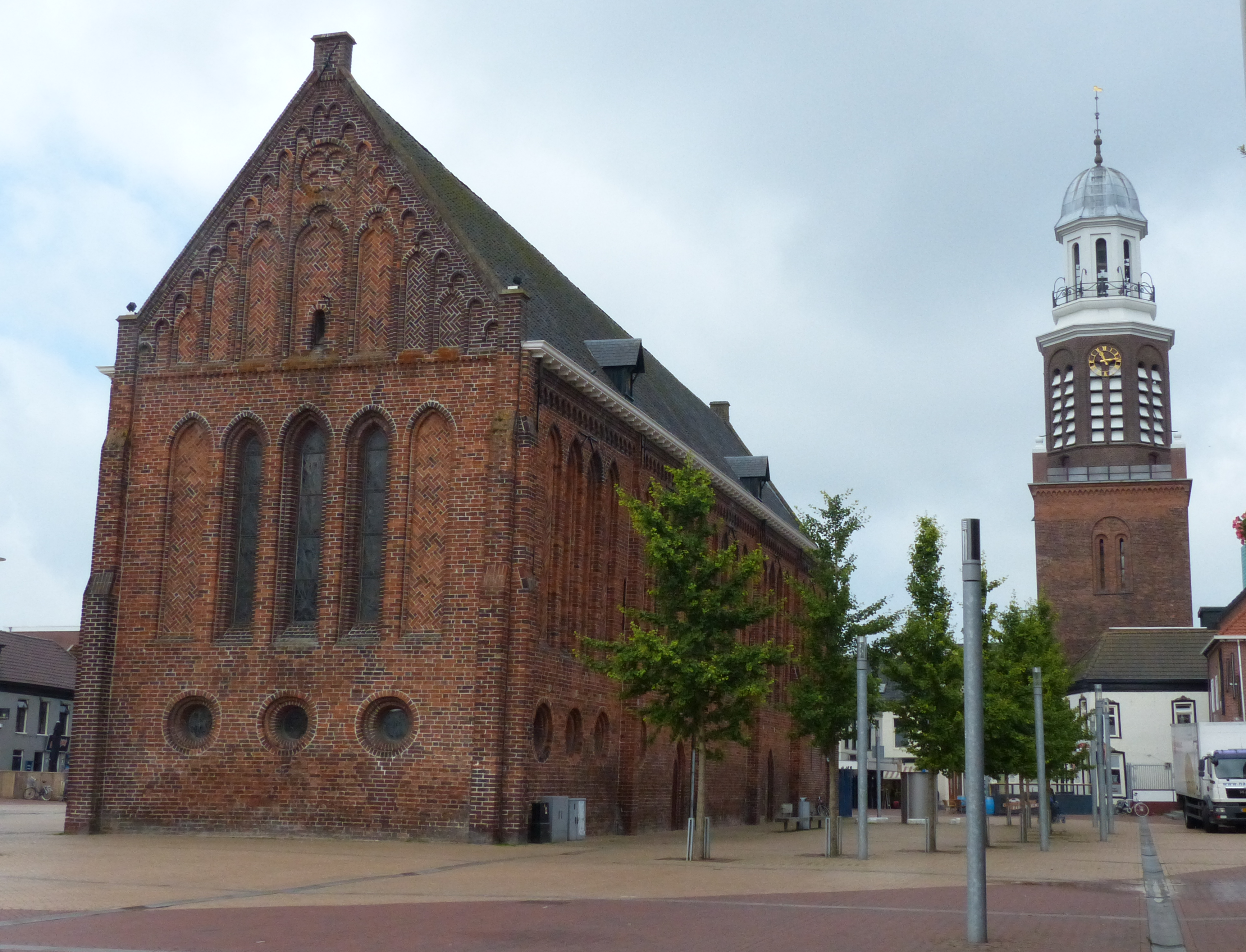 Nave and tower of the Reformed Church in Winschoten